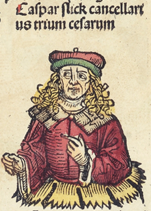 Caspar Schlick, Wood cut from the Nuremberg Chronicle (Latin copy in Sao Paulo)